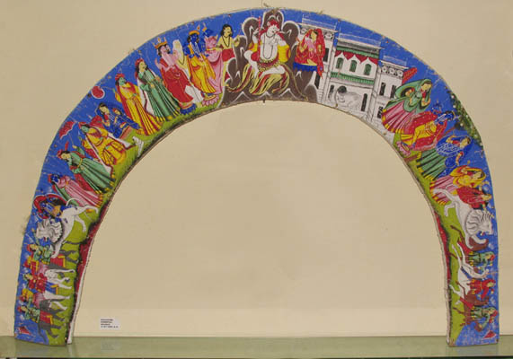 a painting placed on top of the Durga idol during the Durga Puja Ceremony